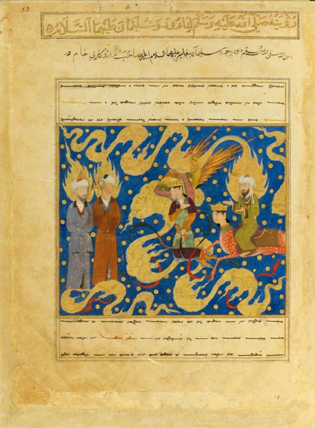 Muhammad, David and Solomon - Mîr Haydar, Mirâdj nâmeh (The Book of the Prophet's Ascension), Afghanistan, Hérât